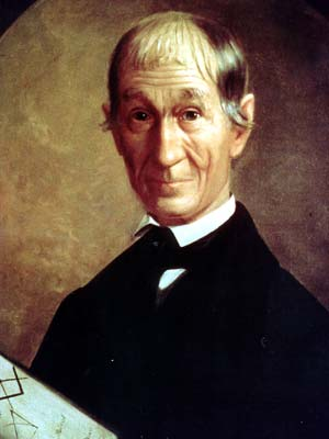 Dudley Leavitt, oil on canvas, Walter Ingalls, courtesy of the New Hampshire Historical Society, Concord, New Hampshire.